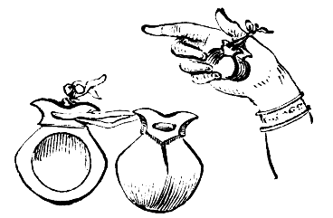 Castanets